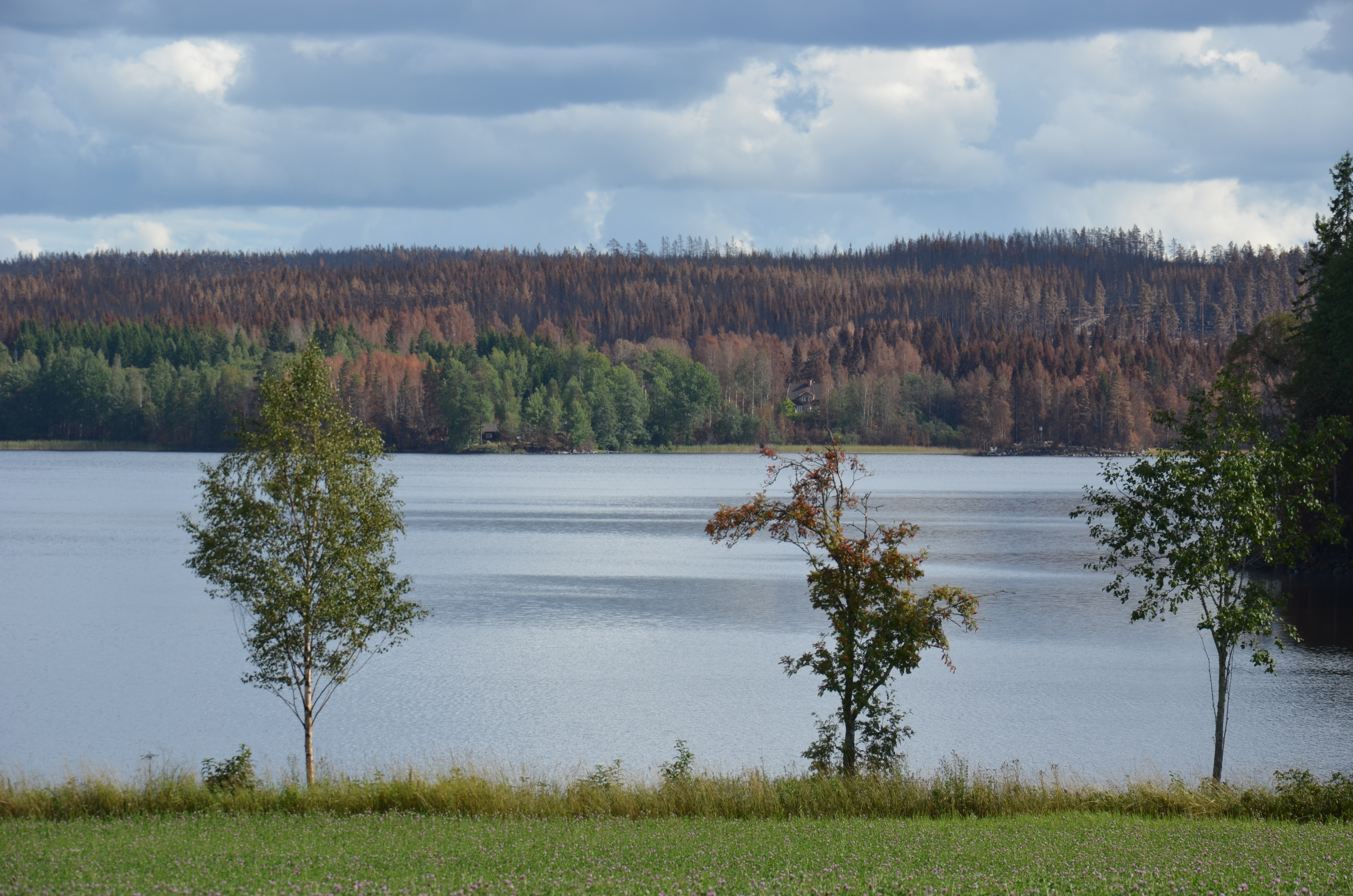 Skog söder om Snyten, nära Stabäck, som är brandskadad efter skogsbranden i Västmanland 2014. Foto taget från Snytsbo mot söder två veckor efter branden.